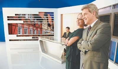 Novo cenário RBS Blumenau